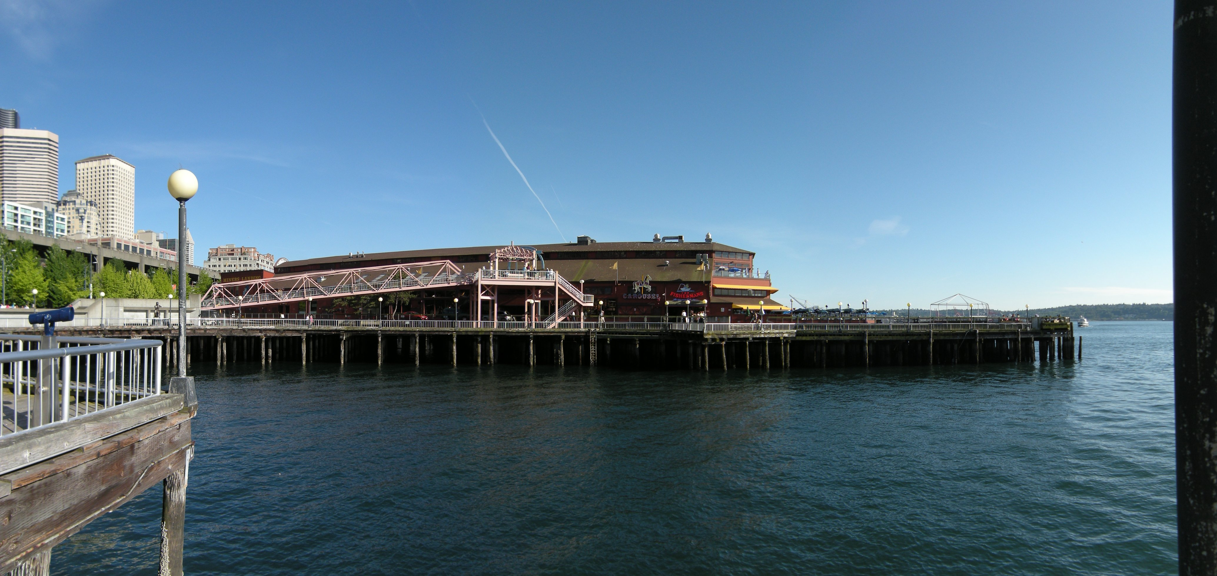 Panoramic view of Pier 57 seen from Waterfront Park near Pier 59, Seattle, Washington. This image was created with Hugin